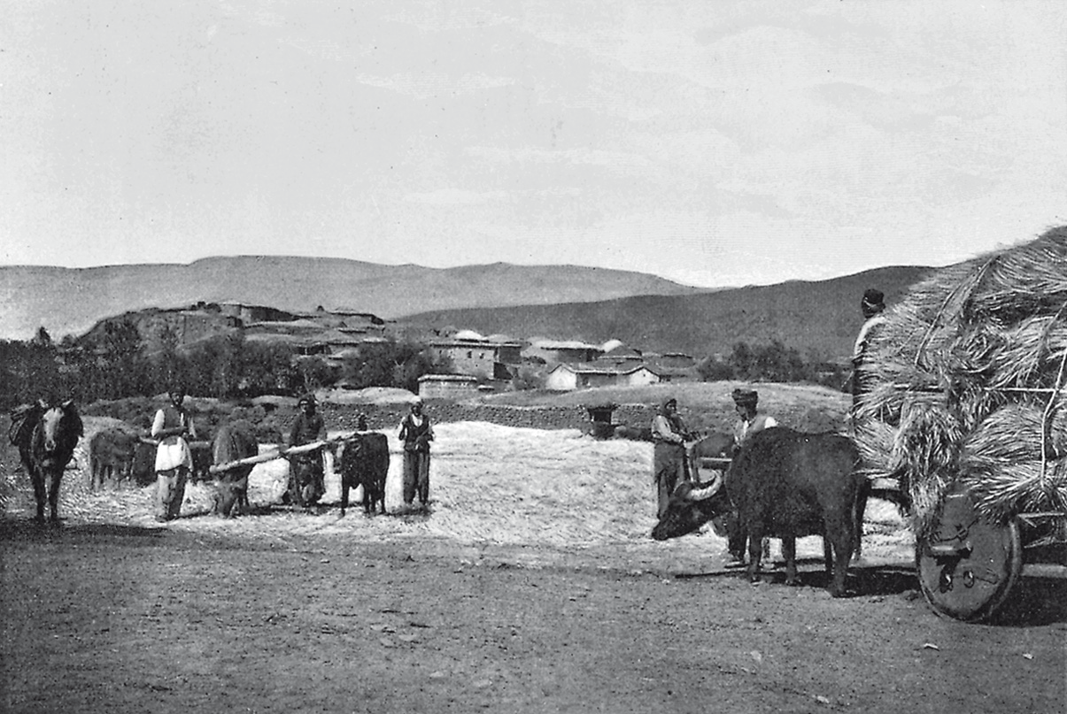 This file is a reproduction from an image in the book "Armenia: Travels and Studies, Vol. 1" authored by Harry Finnis Blosse Lynch, London 1901. The image's title is "Armenian village of Gundemir". It has been reprinted in the book "Rebellenland" by Christopher de Bellaigue, Munich 2008 (Verlag C.H.Beck).